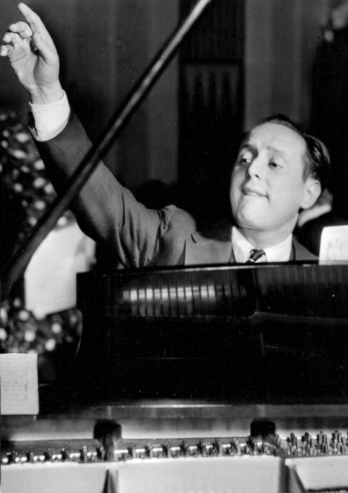 Candid photo of bandleader Ted Fio Rito taken while he was on the air for NBC Radio in Chicago. Fio Rito is shown conducting the orchestra and also playing piano.